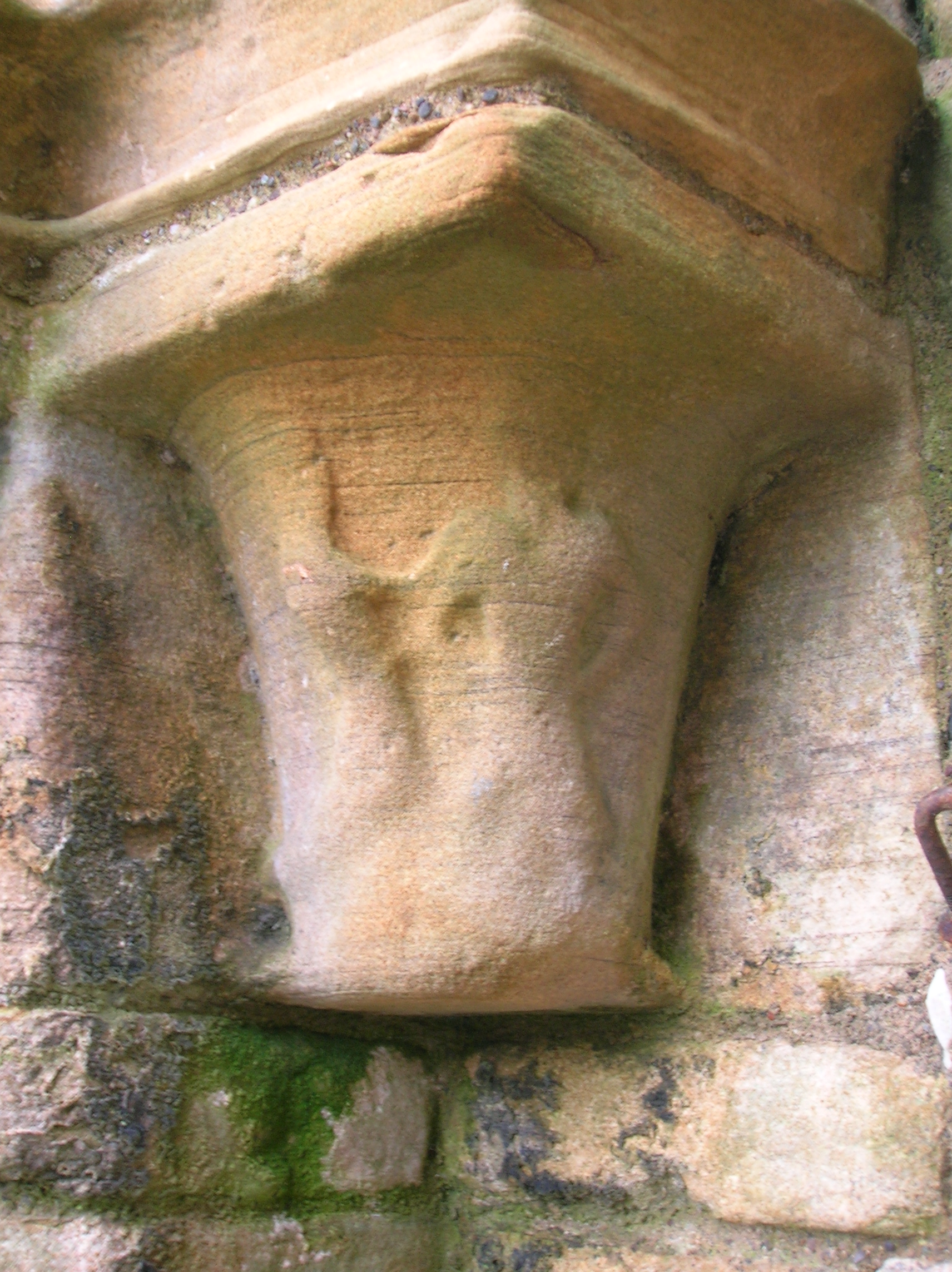 The so called Adam & Eve carving, processional arch, Kilwinning Abbey, North Ayrshire, Scotland.